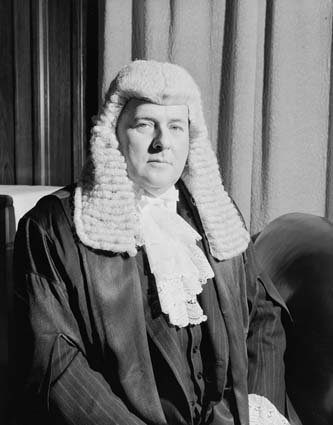 Australian politician Alister McMullin, in the regalia of the President of the Senate